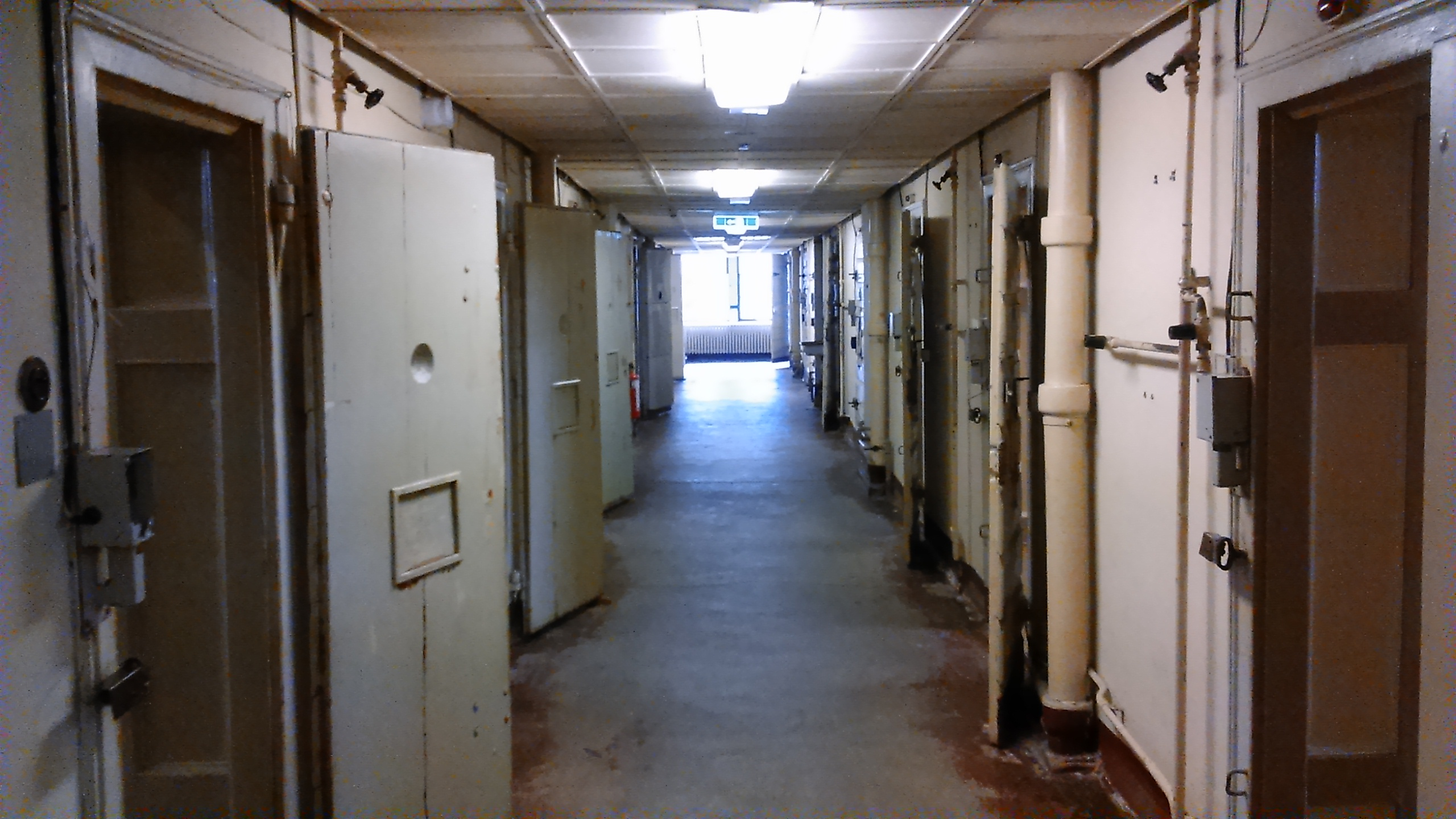 Corridor of the men's section of the former Andreassstrasse Prison, now the Memorial and Education Centre Andreasstrasse. It is a museum about the Stasi and repression in East Germany.